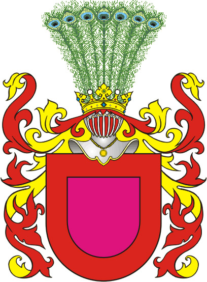 Herb Janina Clan This coat of arms image could be re-created using vector graphics as an SVG file. This has several advantages; see Commons:Media for cleanup for more information. If an SVG form of this image is available, please upload it and afterwards replace this template with vector version available|new image name . It is recommended to name the SVG file "Herb Janina.svg" - then the template Vector version available (or Vva) does not need the new image name parameter. This coat of arms image was uploaded in the JPEG format even though it consists of non-photographic data. This information could be stored more efficiently or accurately in the PNG or SVG format. If possible, please upload a PNG or SVG version of this image without compression artifacts, derived from a non-JPEG source (or with existing artifacts removed). After doing so, please tag the JPEG version with Superseded|NewImage.ext and remove this tag. This tag should not be applied to photographs or scans. For more information, see BadJPEG .